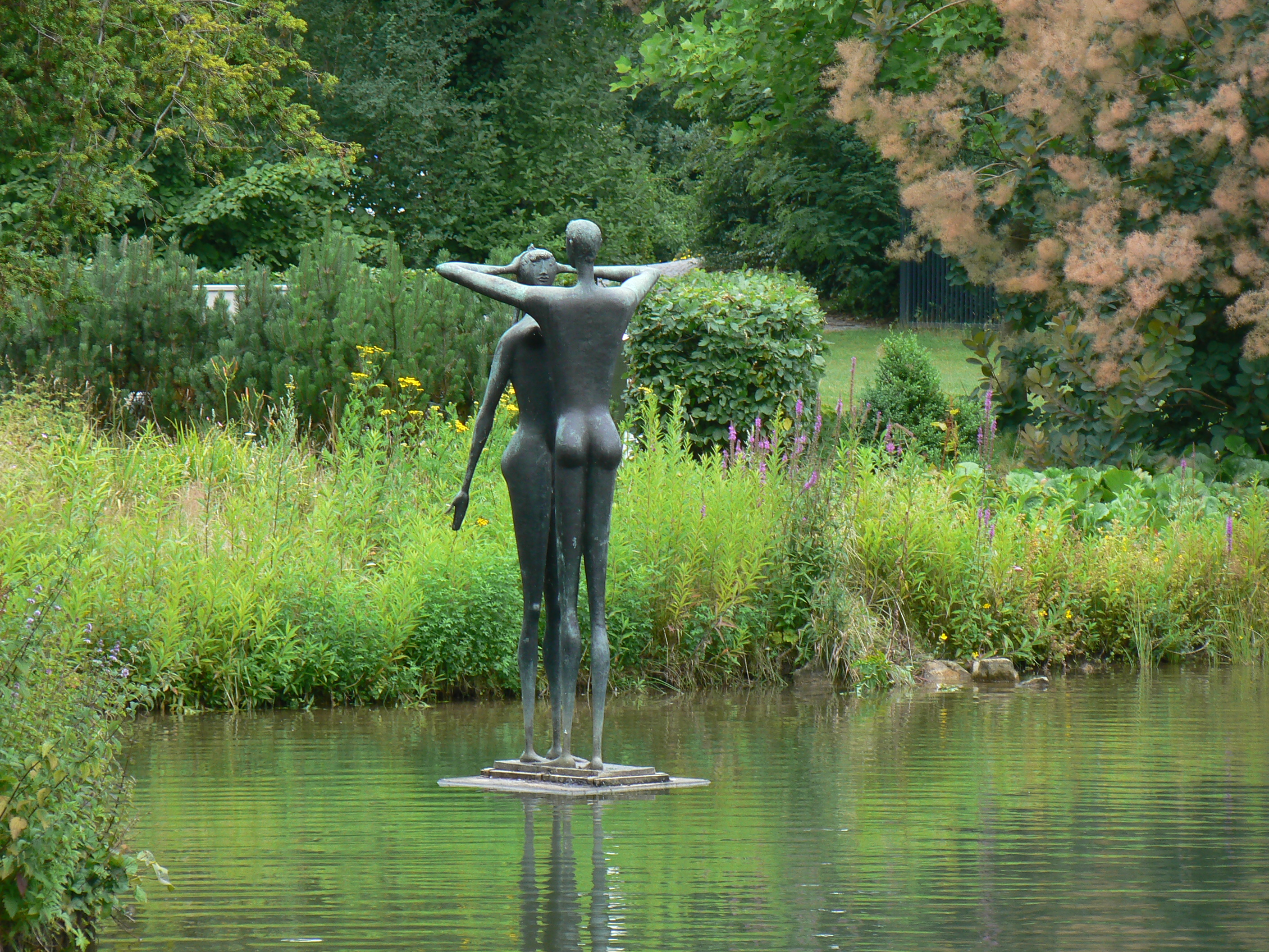 sculpture Cantico dei Cantici (1957) by Marcello Mascherini in the sculpturepark Paracelsus-Klinik in Marl/Germany